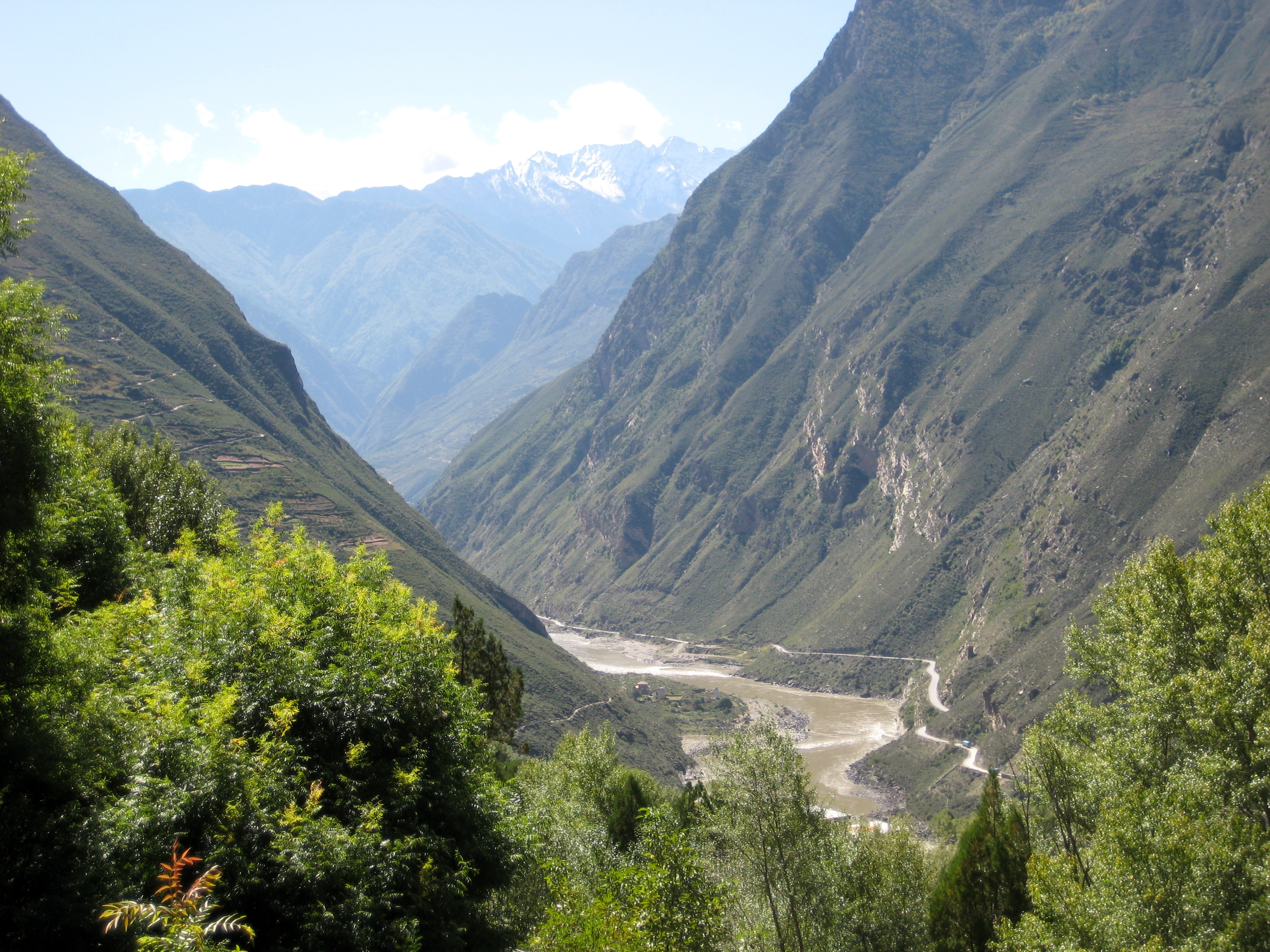 The Dadu River in a beautiful canyon, with a road along the right side. In Sichuan — southern China. A tributary of the Yangtze River (Chang Jiang).